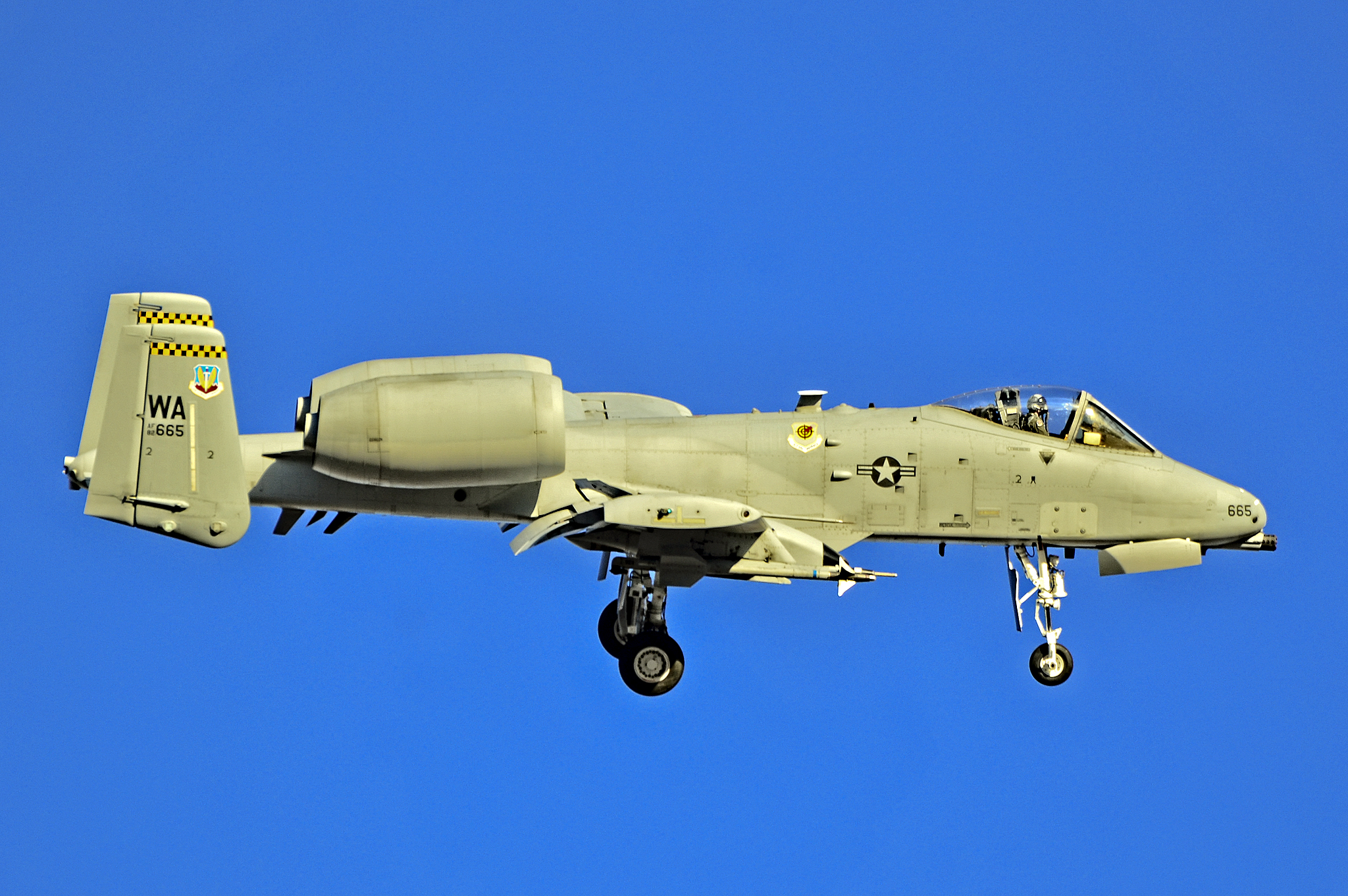 TDelCoro Red Flag 14 January 27, 2013